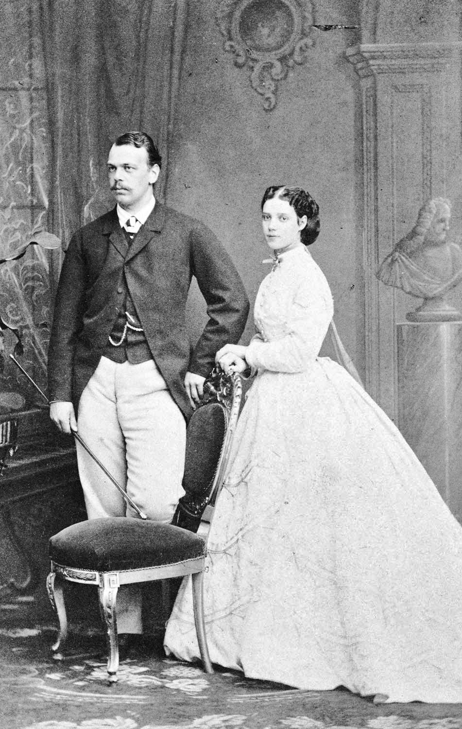 Tsarevich Alexander Alexandrovich of Russia and Princess Dagmar of Denmark